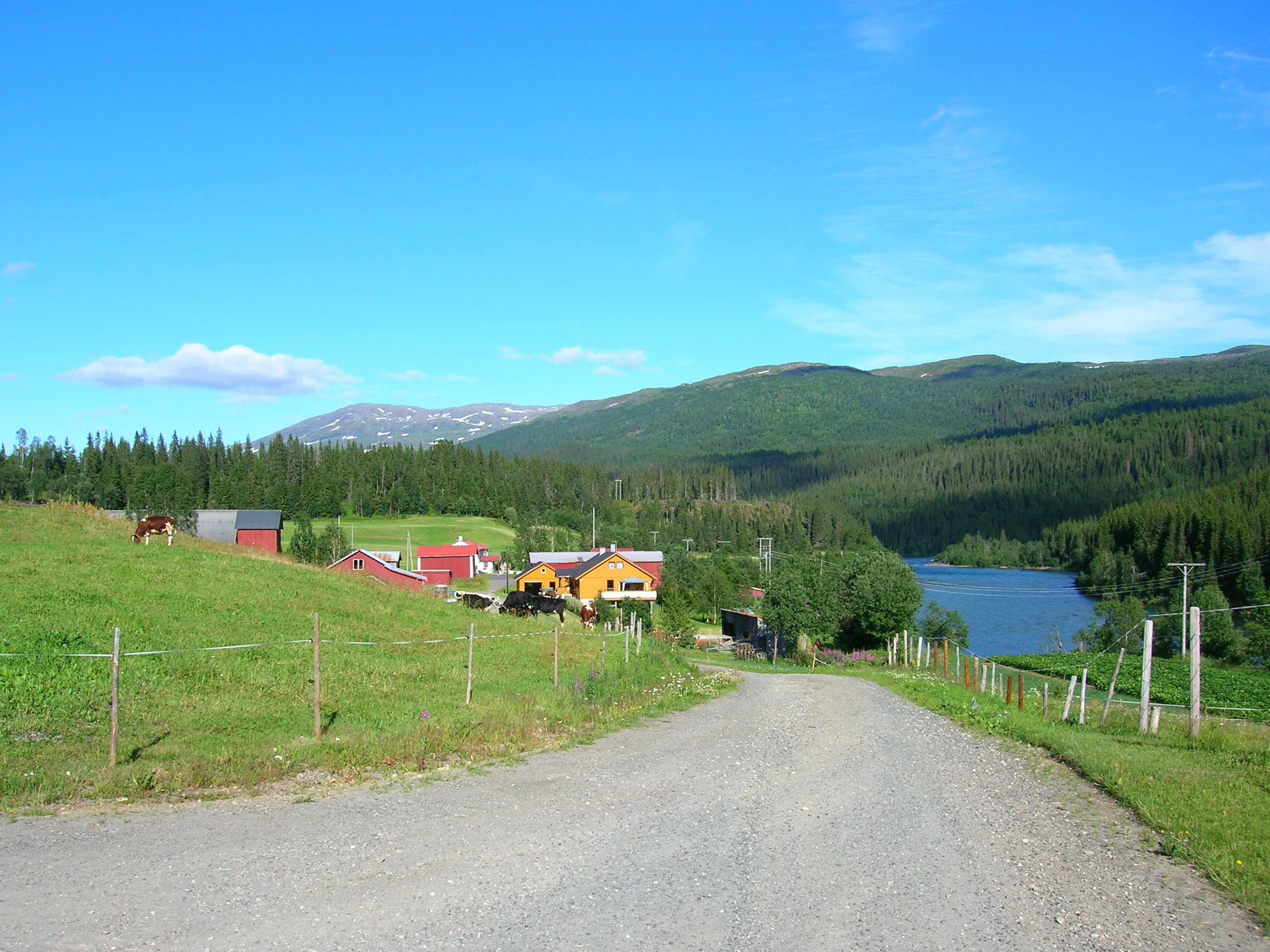 Farms of Eiterå, Dunderlandsdalen in Rana municipality, county of Nordland, Norway. Photo July 19, 2007 with a Nikon Coolpix 5600 5,1 Megapixel camera.